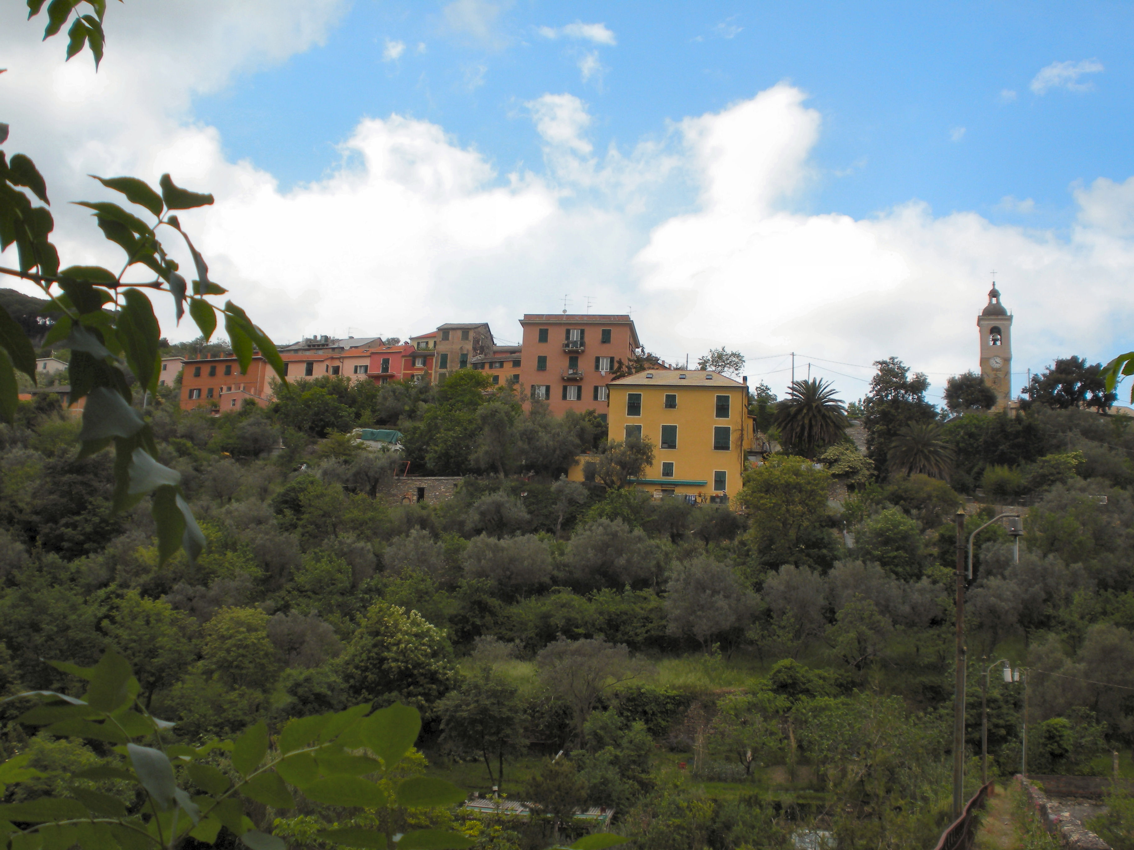 Genoa (Italy), quarter of Staglieno, view of St. Antonino